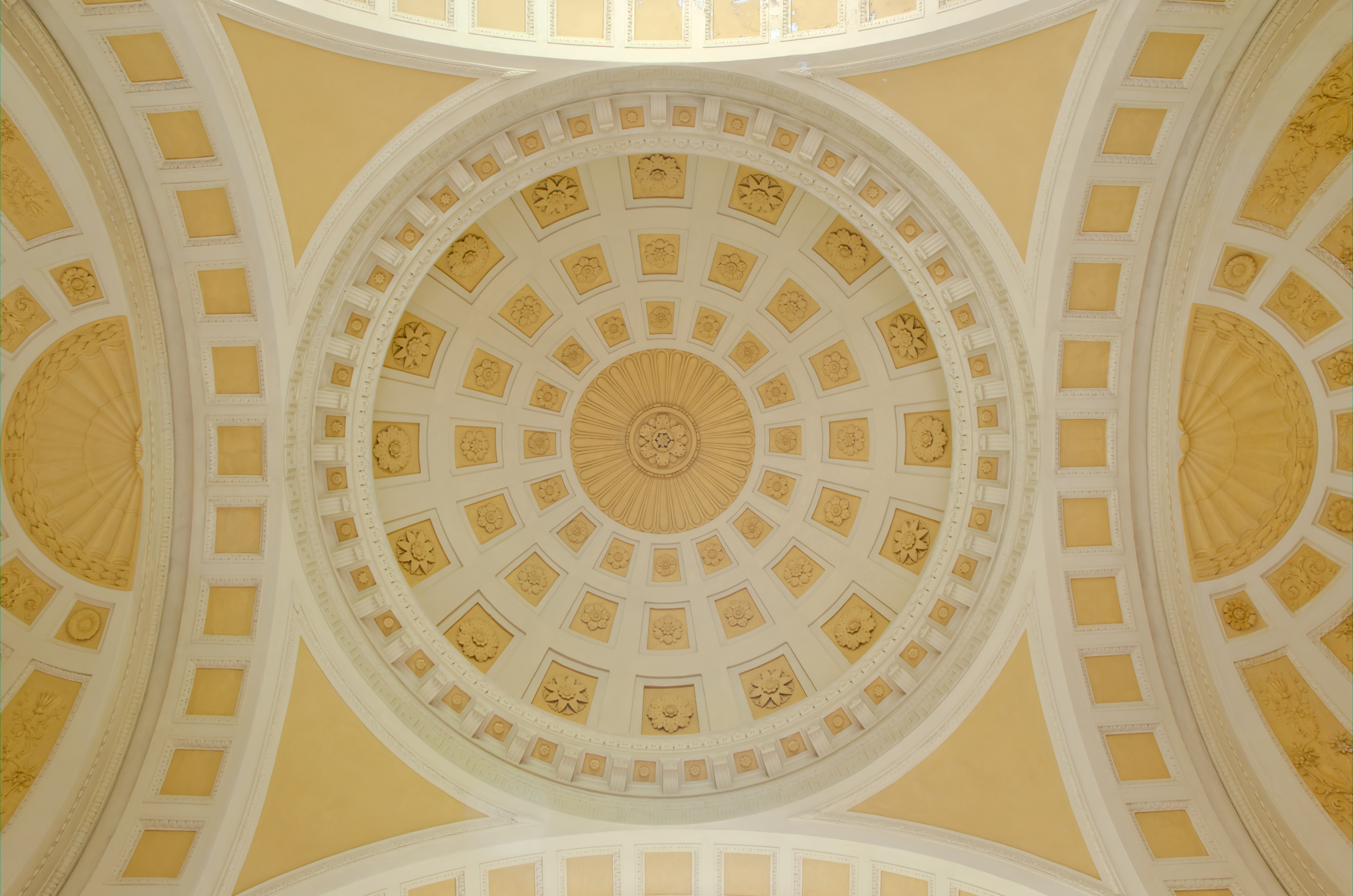 Schimmelmann-Mausoleum - Kuppel This is a photograph of an architectural monument.